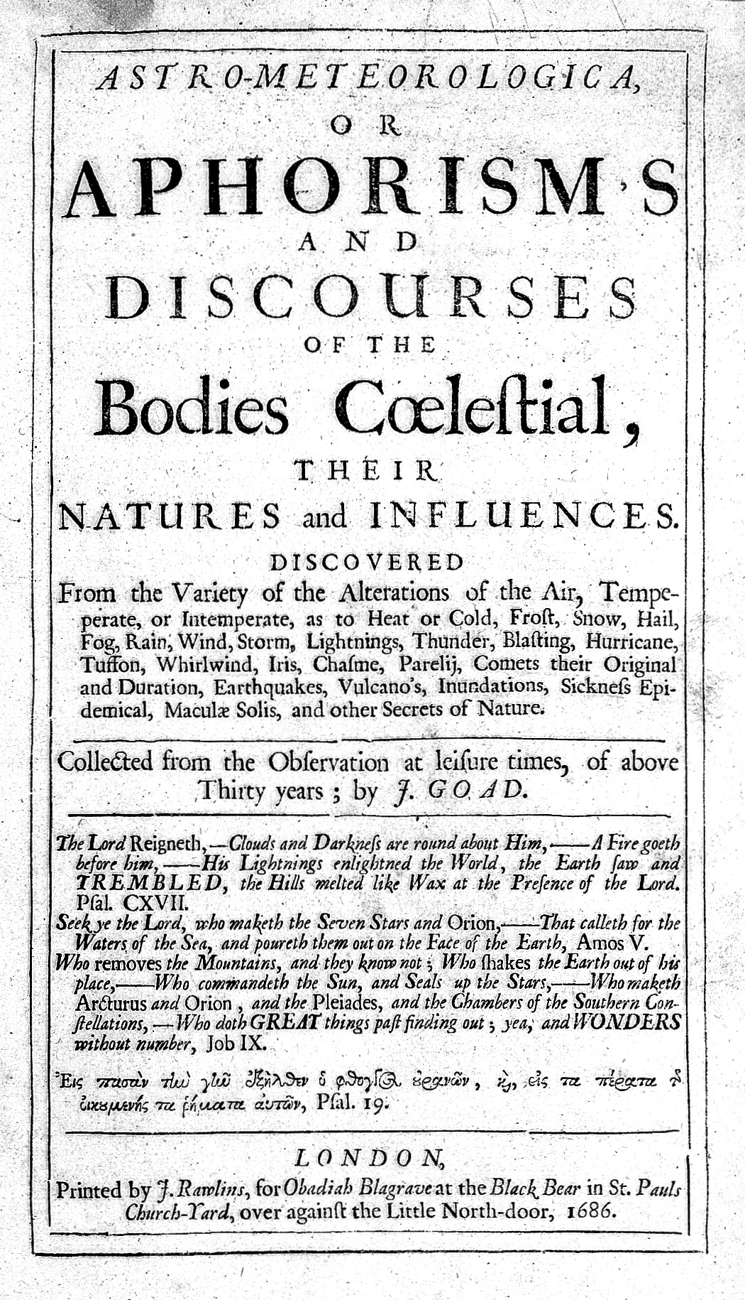 Rare Books Keywords: John Goad